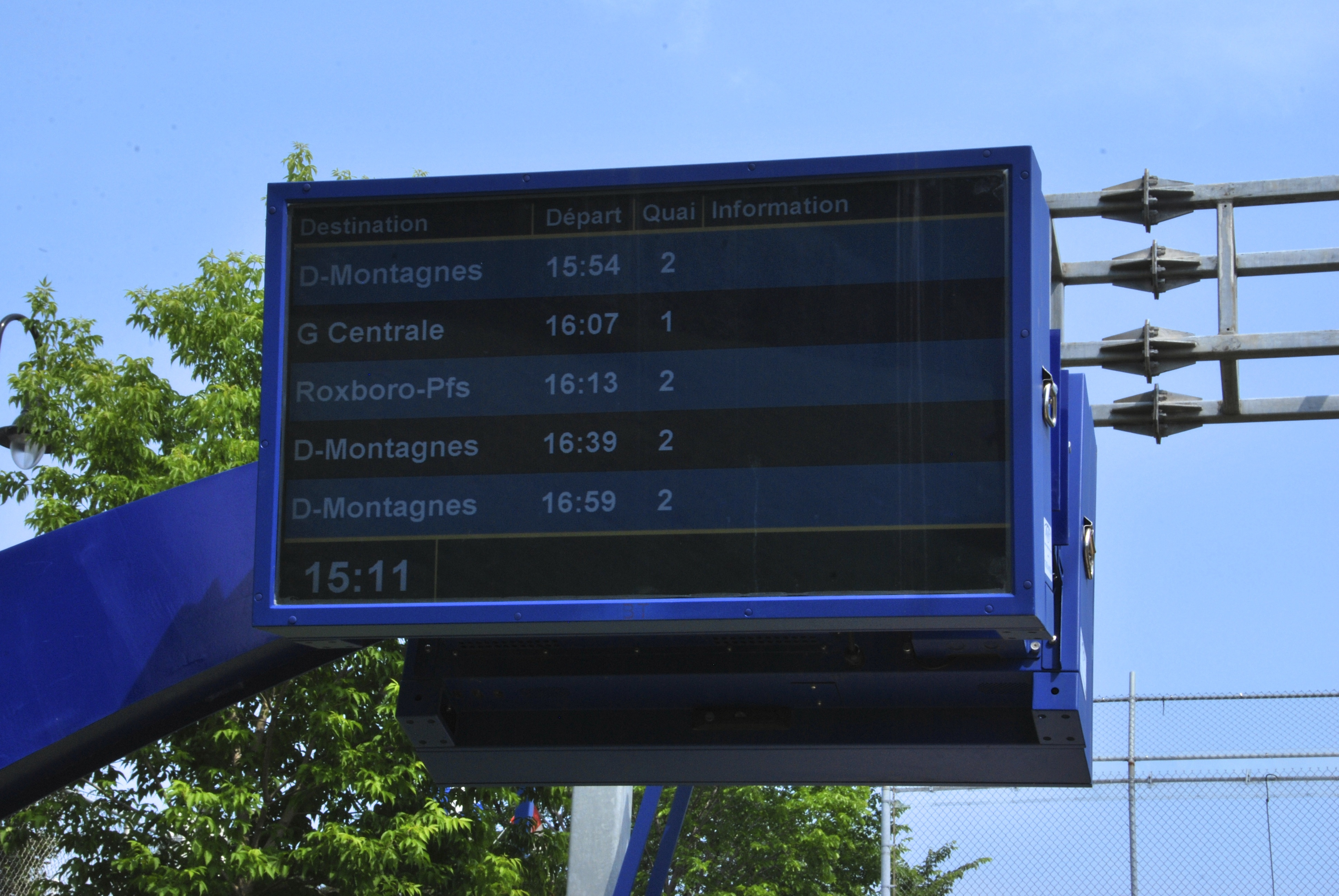 An AMT information panel at Mont-Royal